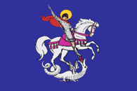 Flag of Georgievsky rayon, Stavropol Territory, Russia